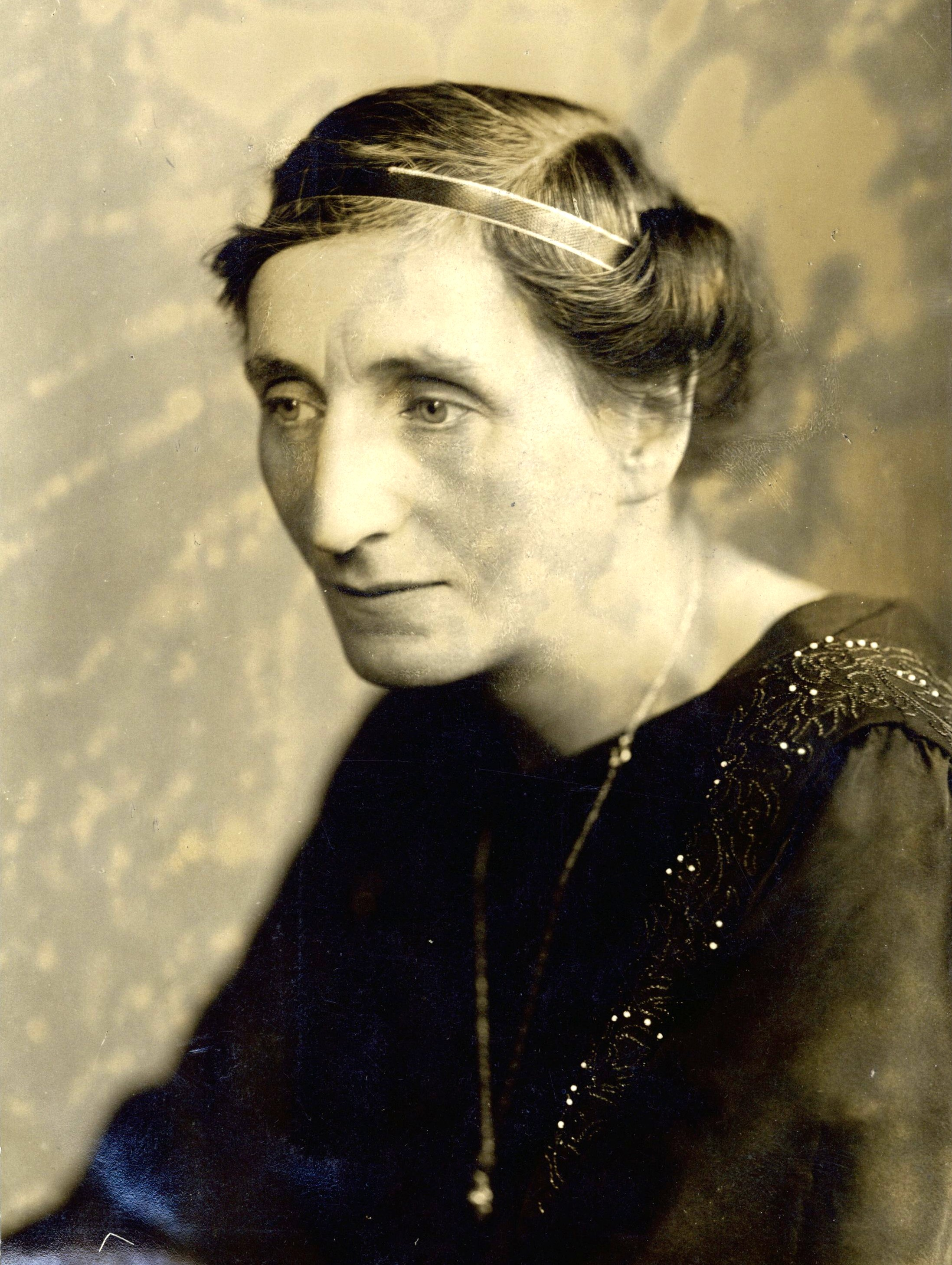 Picture of Alice Salomon